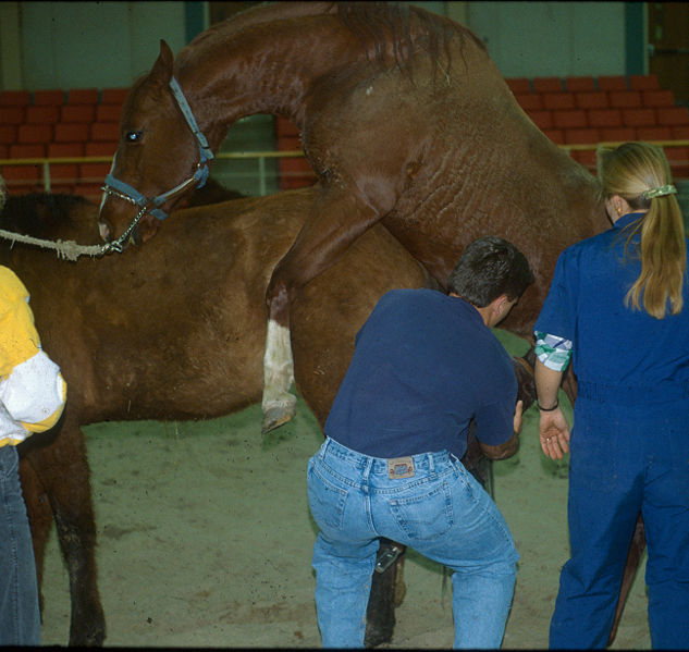 Collecting a stallion for artificial insemination using a jump mare. Photo source: Kathy Anderson, University of Kentucky